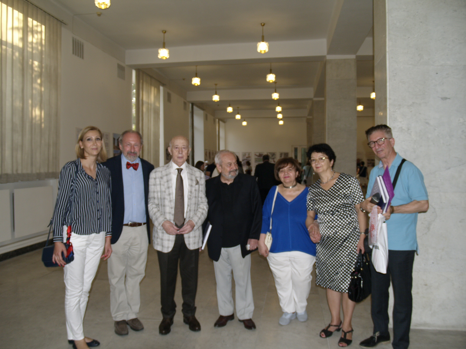 Exhibition on Gurgen Musheghyan's 85th Anniversary